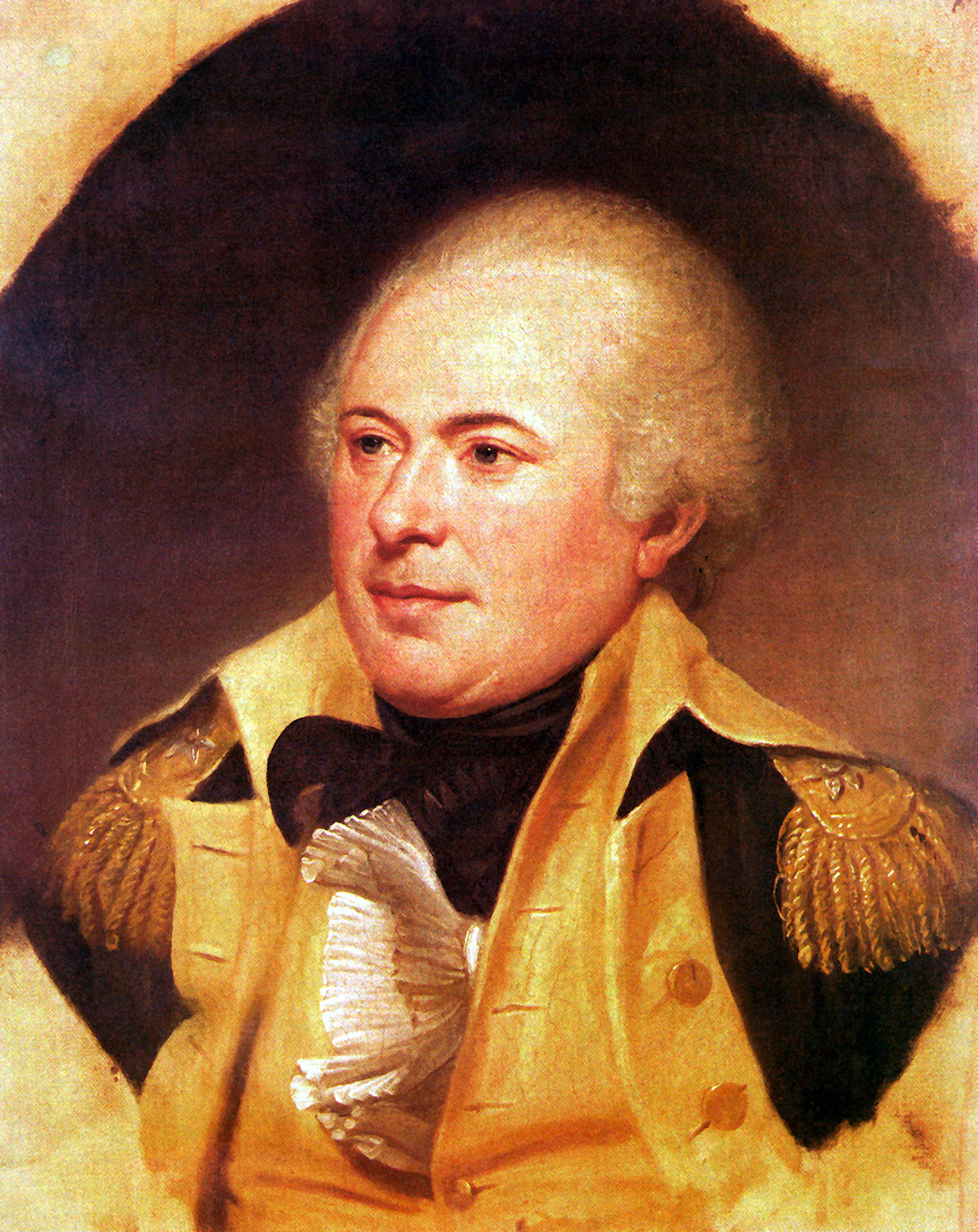 James Wilkinson; Oil on canvas, 231/2" x 191/4"